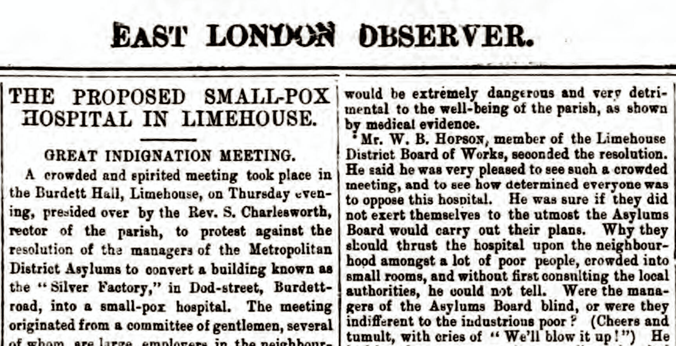 Indignation meeting in Limehouse at plan to erect smallpox hospital in crowded working district. (Facsimile of report in East London Observer, 13 January 1877.)